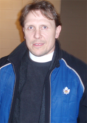 Ice hockey player Steve Thomas at an Oshawa Generals game in 2009.